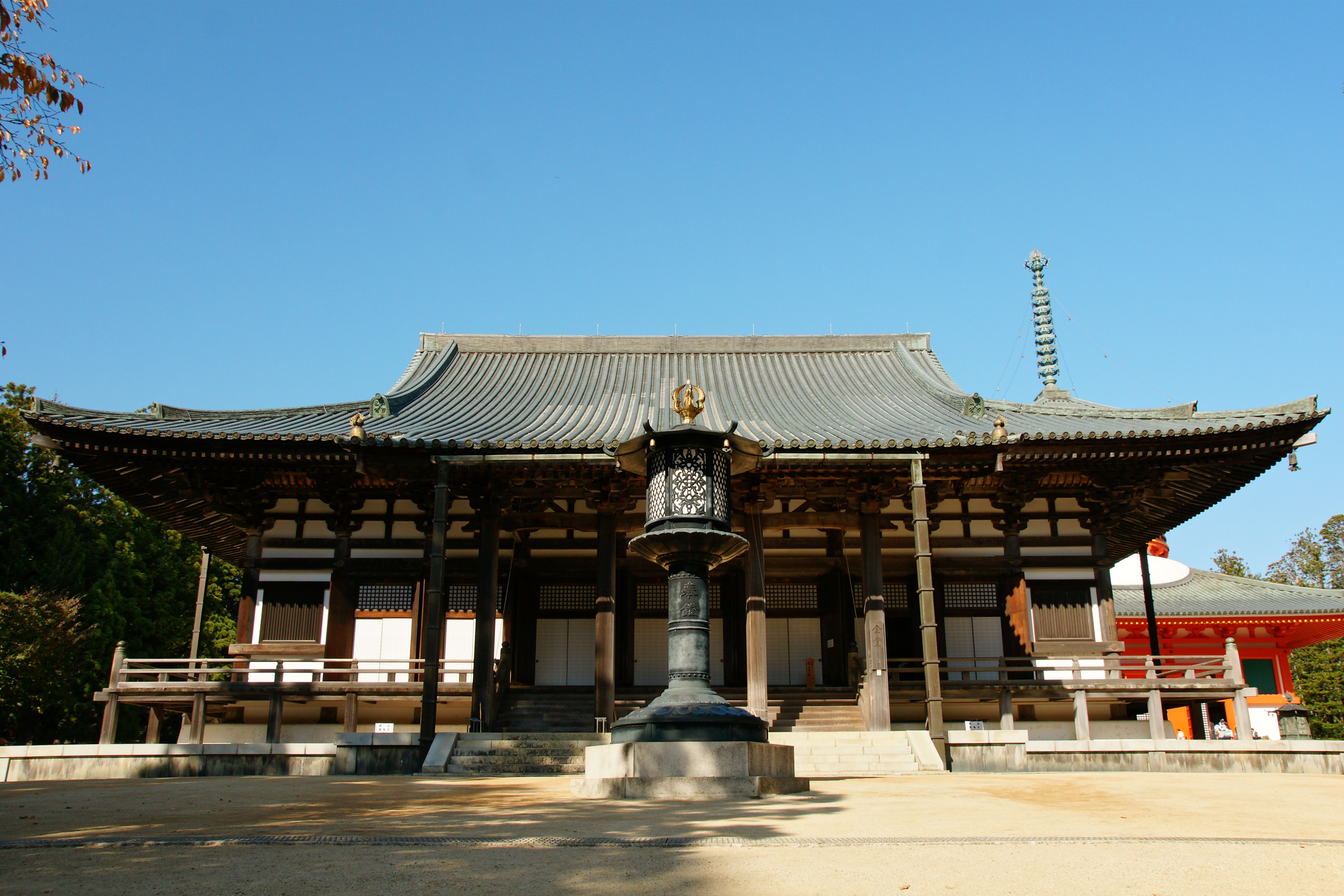 Danjōgaran in Mount Kōya, Wakayama prefecture, Japan.